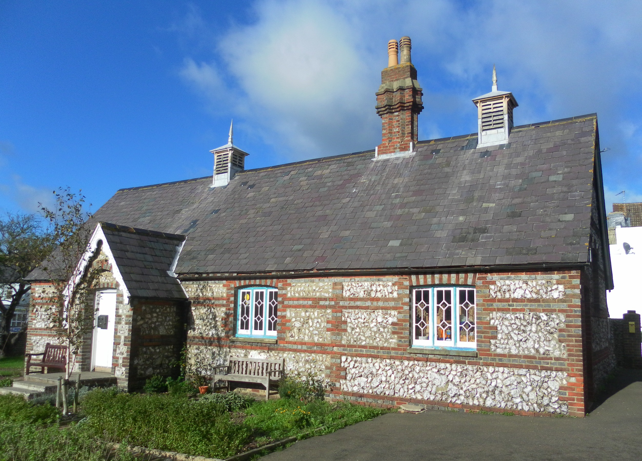 Brodie Hall, Seaside, Eastbourne, East Sussex, England. Formerly a church school attached to Christ Church, in whose grounds it stands. Listed at Grade II by English Heritage (NHLE Code 1190560)